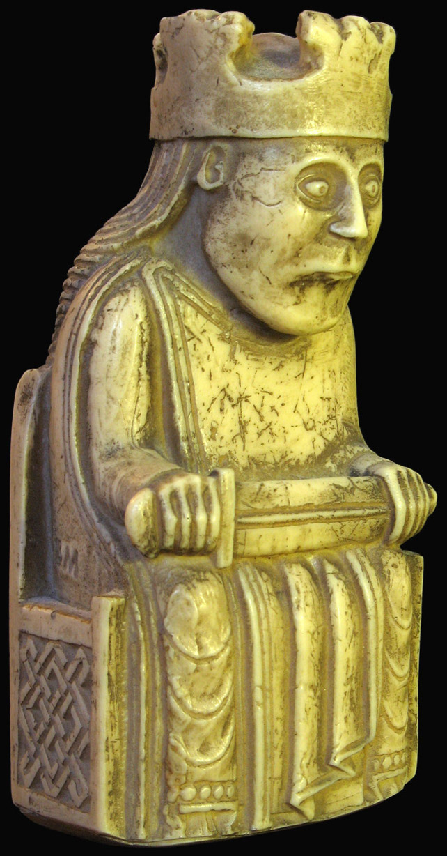 A replica of one of the Lewis chessmen.